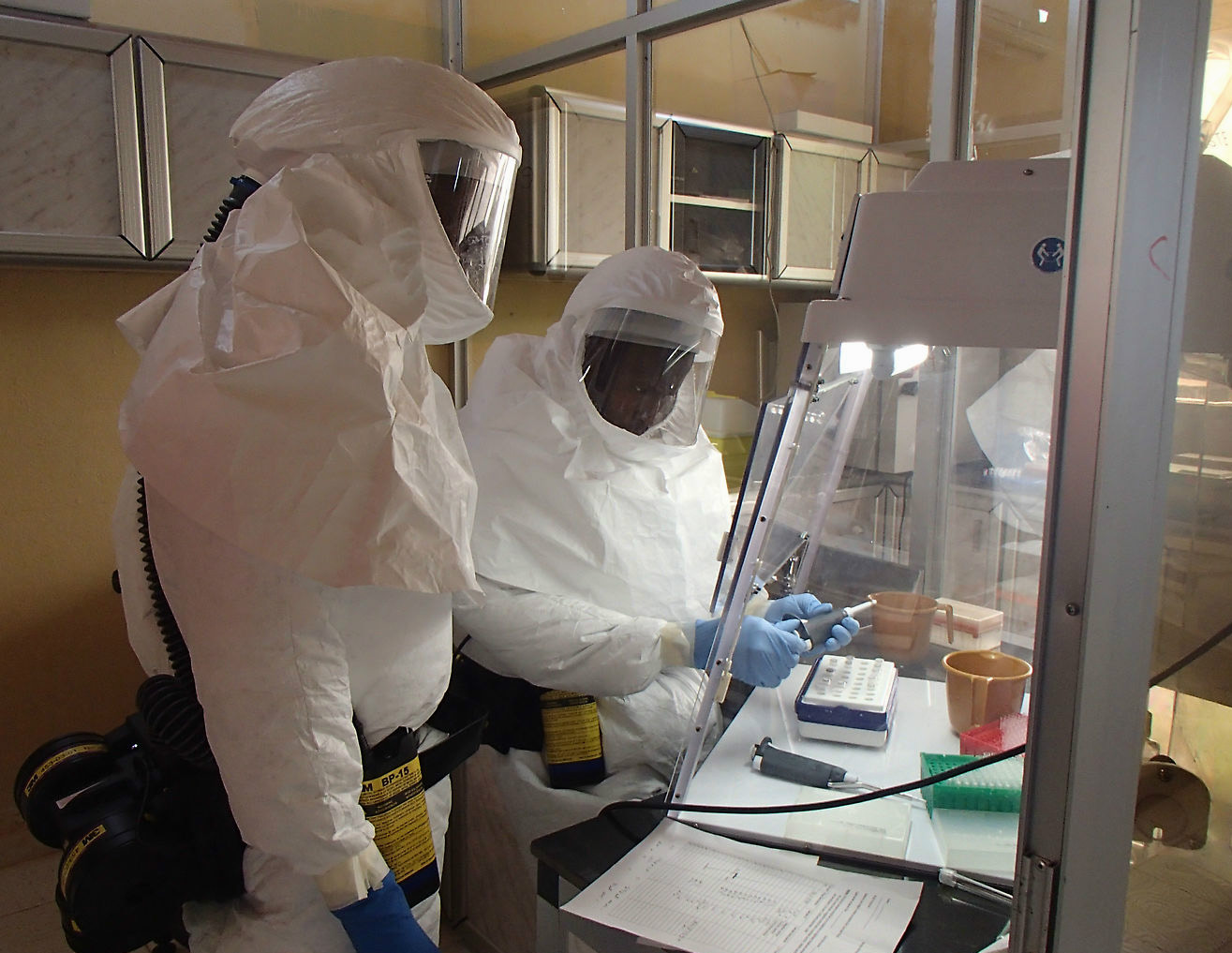 A technician sets up an assay for Ebola within a containment laboratory. Samples are handled in negative-pressure biological safety cabinets to provide an additional layer of protection. Photo by Dr. Randal J. Schoepp